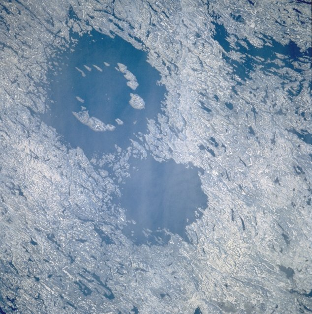 STS61A-35-86 Lac à l'Eau Claire (Clearwater Lake[s]), Québec, Canada November 1985